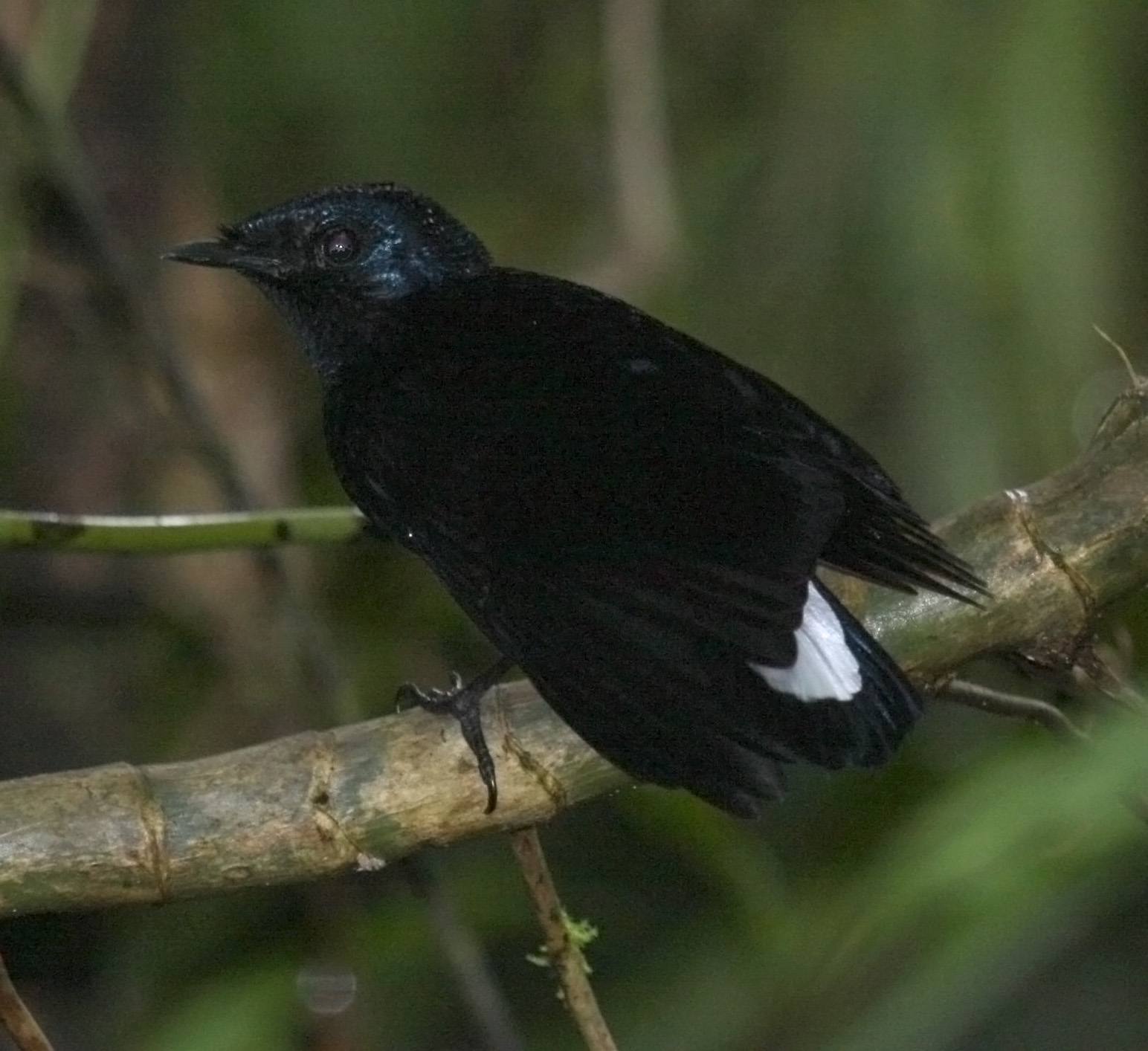 Silktail (Lamprolia victoriae) near Vidawa, Taveuni, Fiji Isles